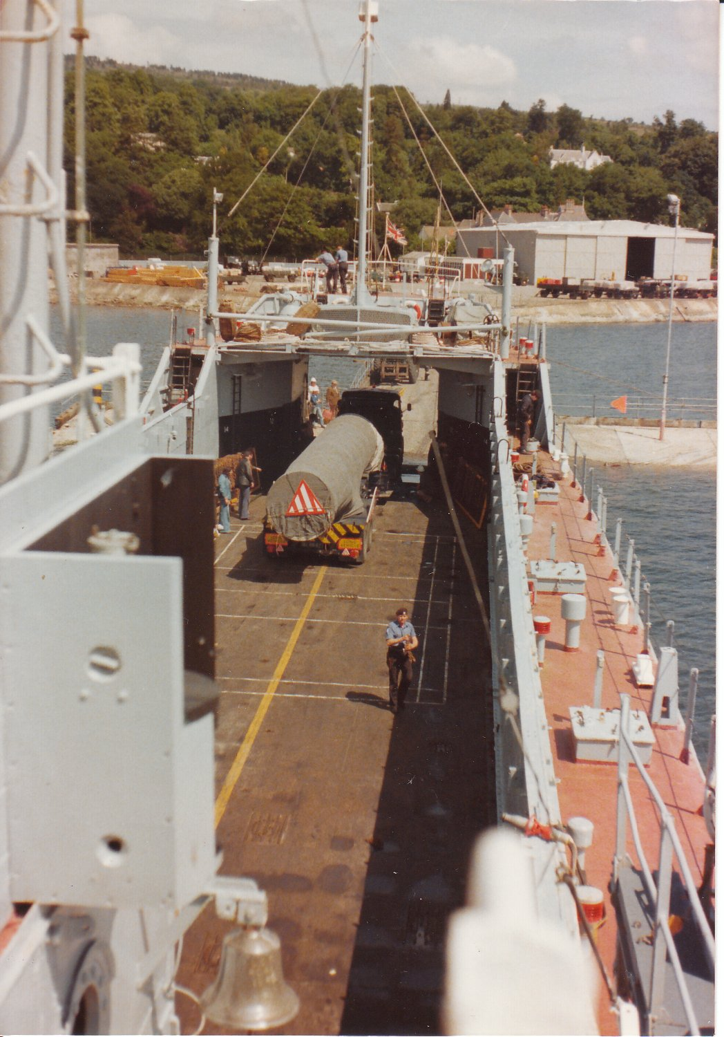 HMAV Abbeville (L4041) at Rhu Hard. The item being offloaded is actually a Polaris Missile (no warhead!)